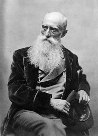 Portrait of William Morris Hunt (1824-1879)